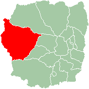 Location map of Tsiroanomandidy region in Antananarivo province.